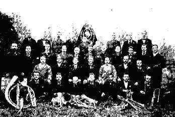 A picture of the Dutch wind orchestra 'Volharding' from 1895.